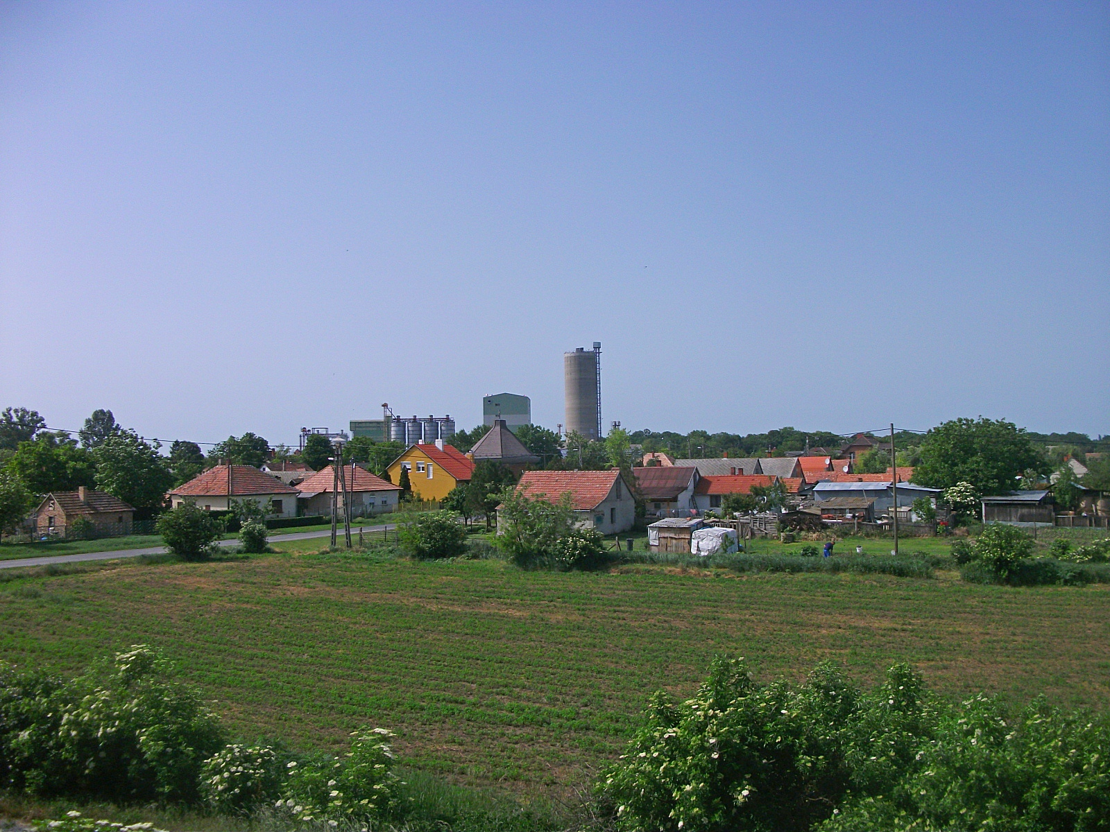 Panorama of Zichyújfalu.